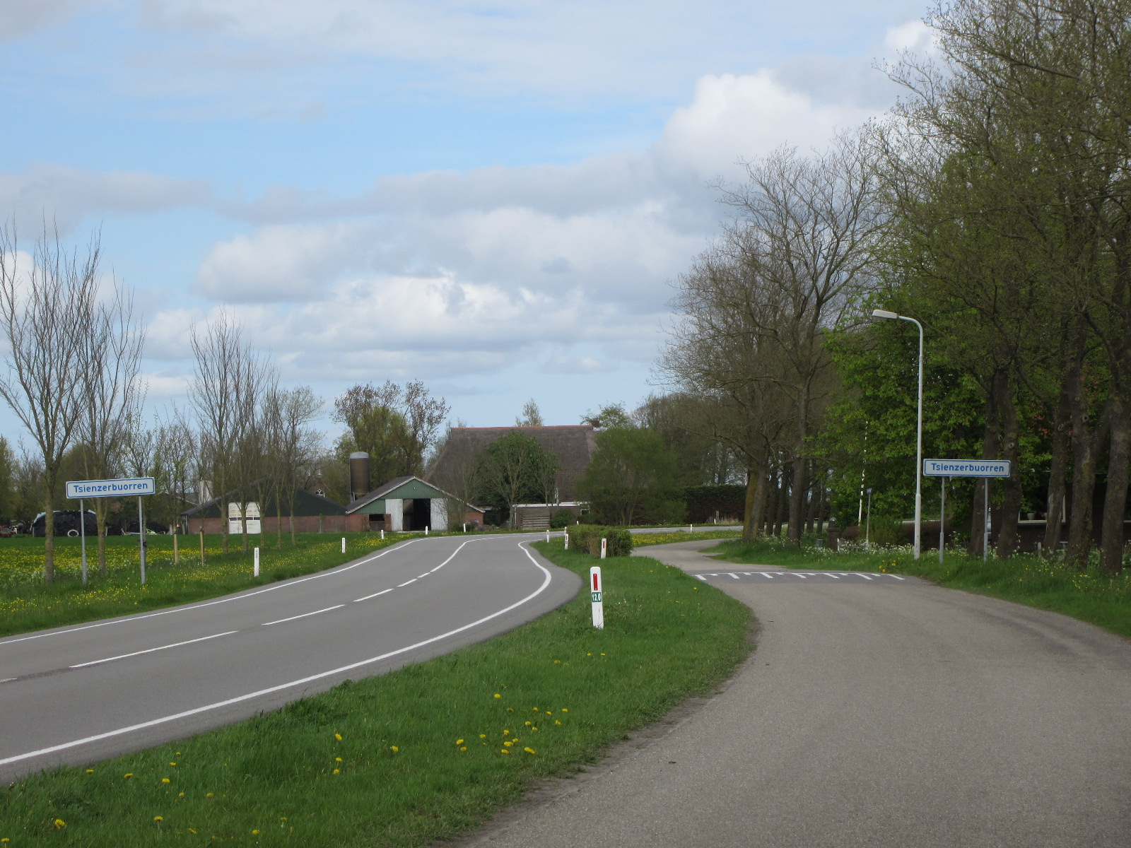 Hamlet Tsienzerbuorren, county Friesland, The Netherlands.